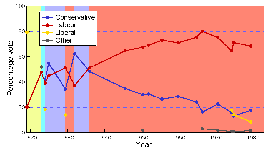 Election results for Sheffield Park constituency from 1918–1983. © Jeremy Atherton 2005.